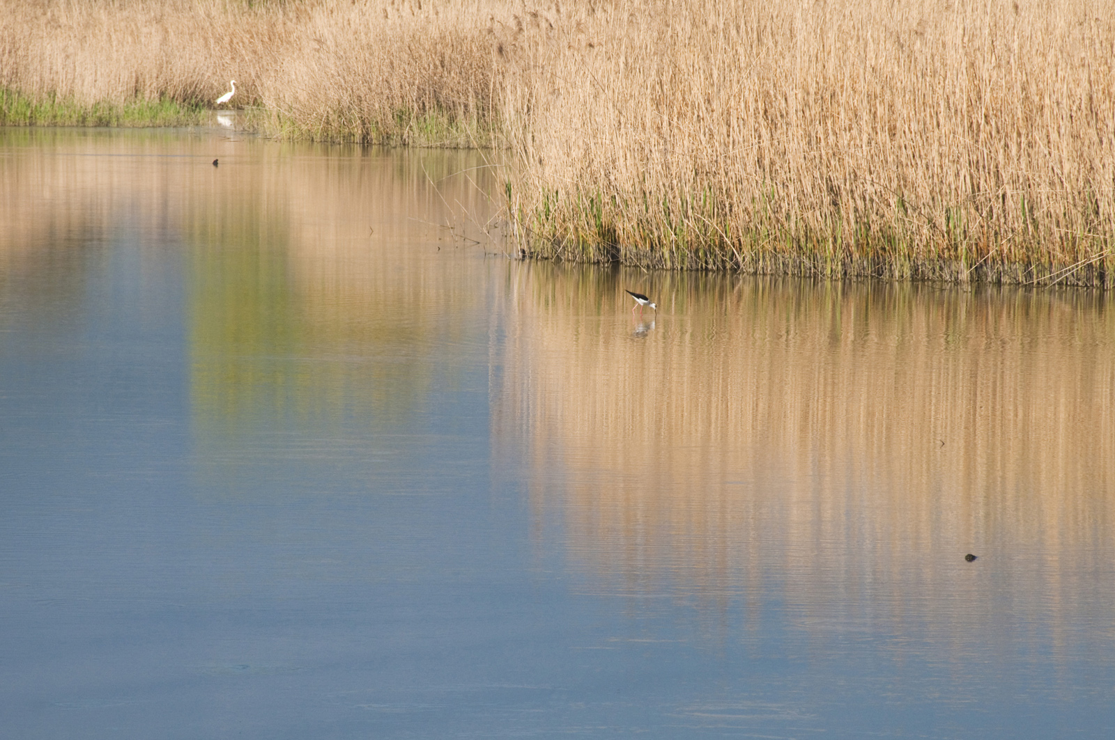 This is a photo of a monument which is part of cultural heritage of Italy. The authorisation for taking photos of this object was provided by the World Wide Fund for Nature Italy.